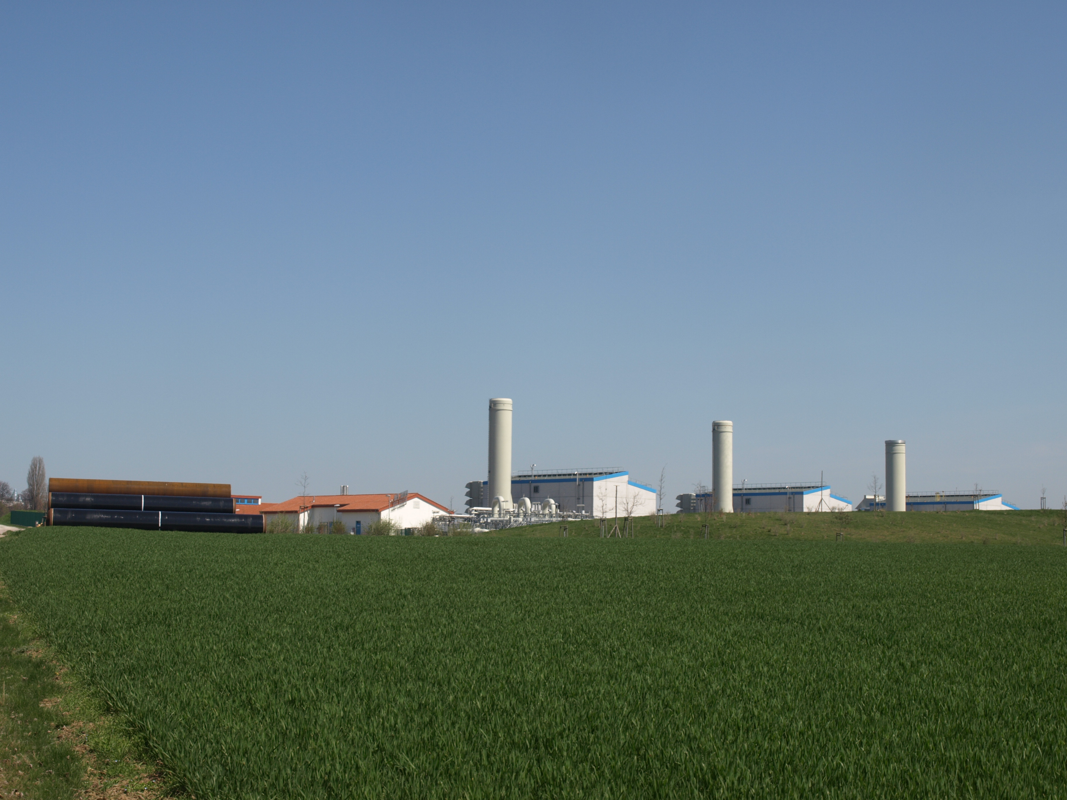 Compressor station of the STEGAL natural-gas pipeline near Eischleben, Ilm-Kreis, Thuringia, Germany